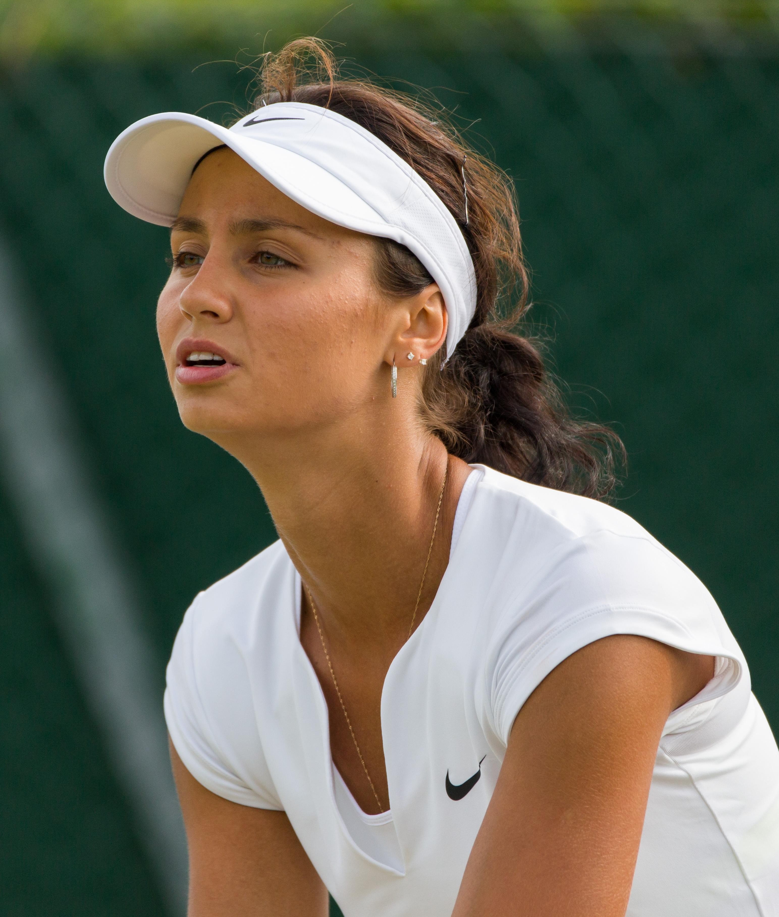 Elizaveta Kulichkova competing in thesecond round of the 2015 Wimbledon Qualifying Tournament at the Bank of England Sports Grounds in Roehampton, England. The winners of three rounds of competition qualify for the main draw of Wimbledon the following week.